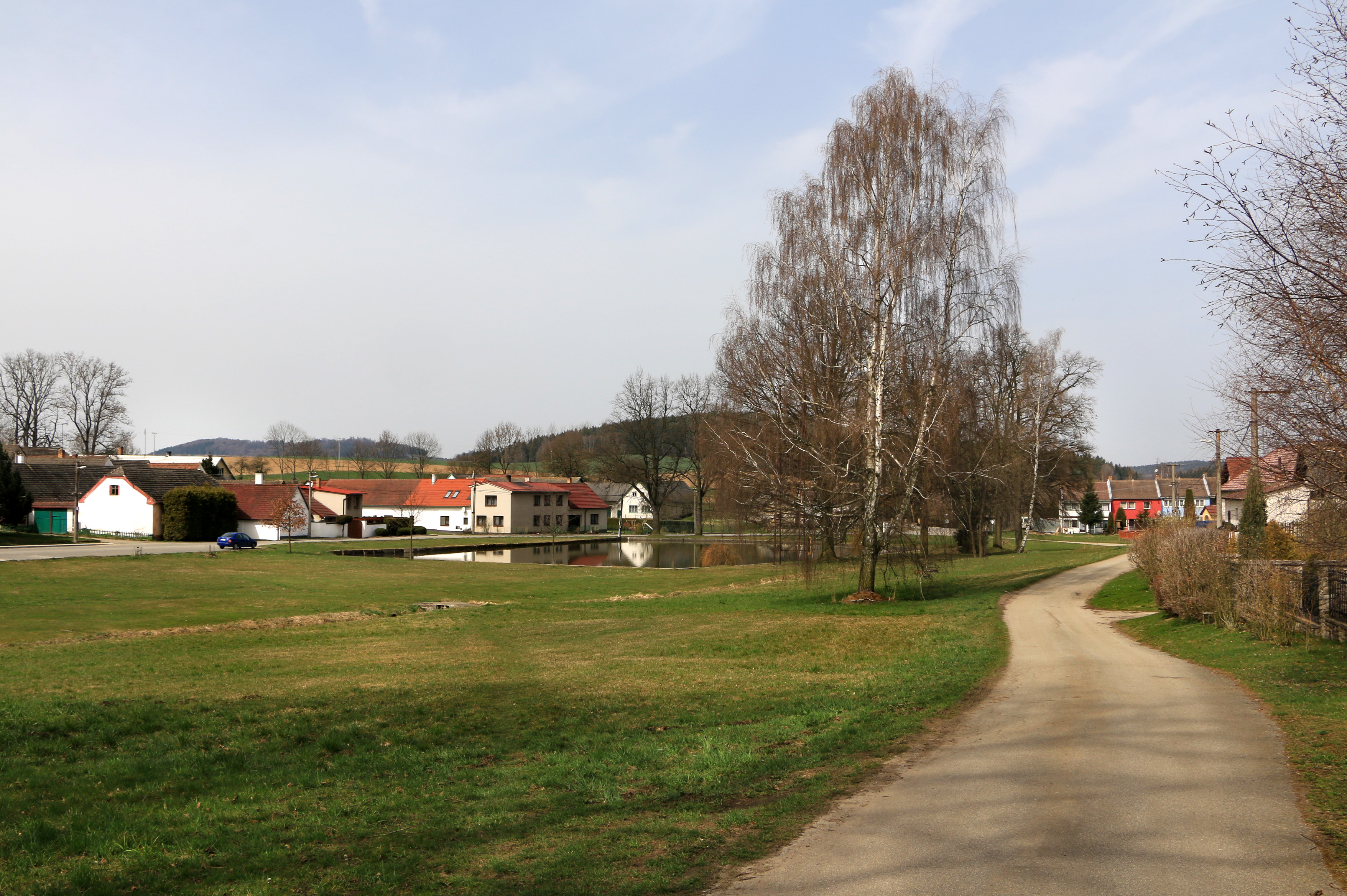 Common in Psárov, Czech Republic.